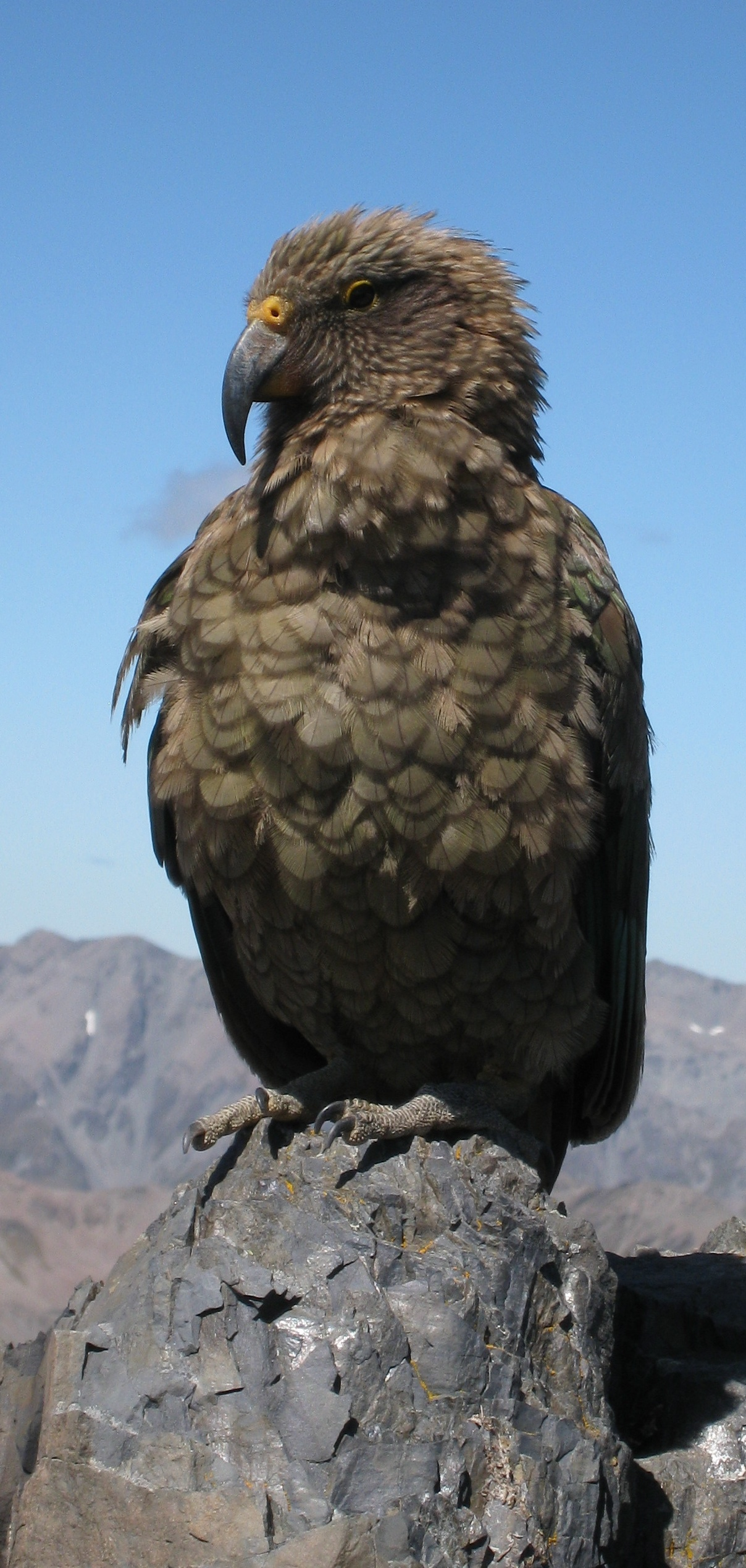 Kea perched on Avalanche Peak, near Arthurs Pass in New Zealand's Southern Alps.